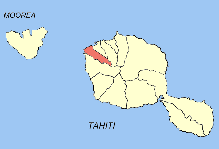 Map of Tahitian communes — Fa’a’a